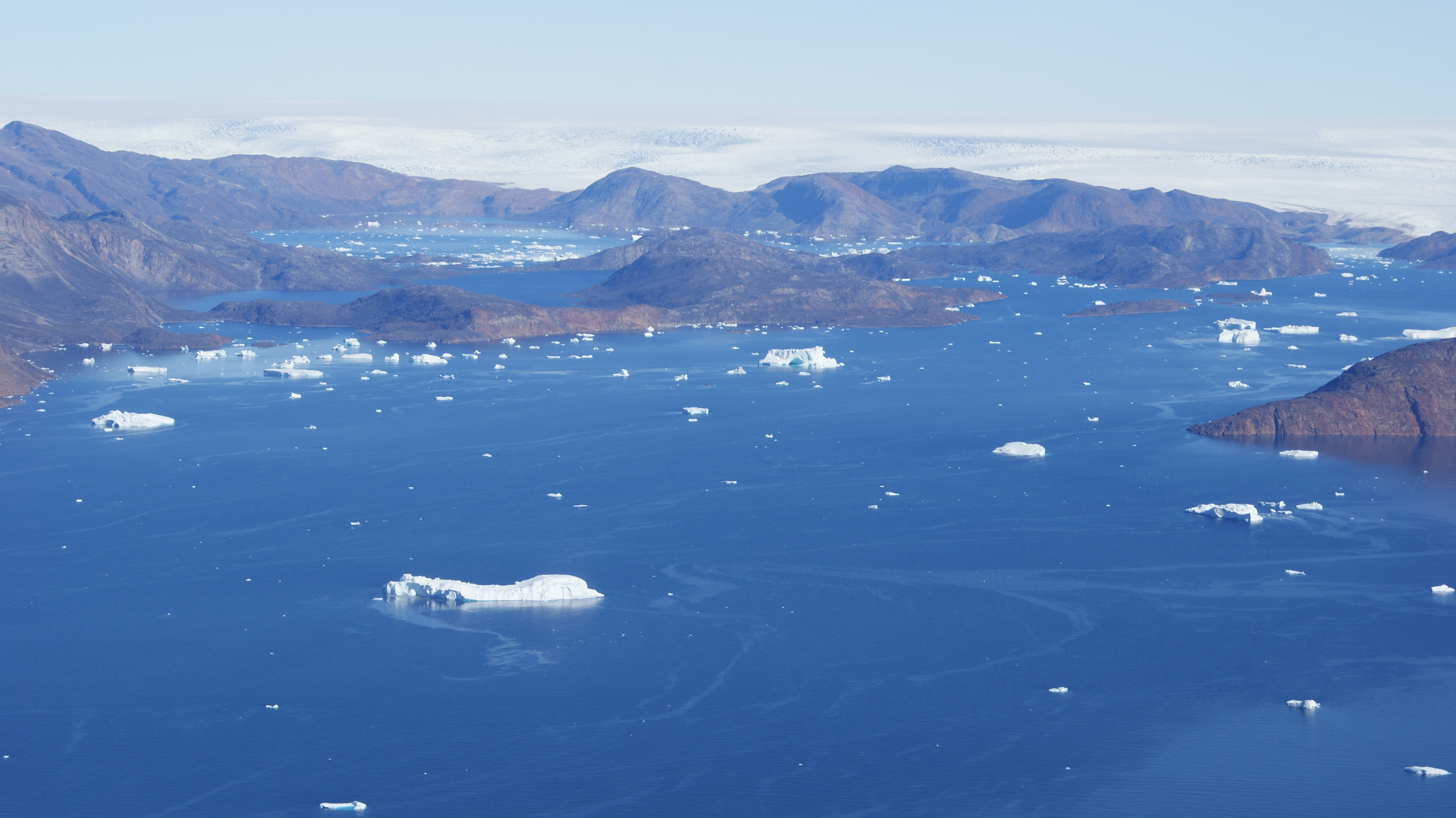 Aerial view of Ikerasaa Strait, Upernavik Archipelago, Greenland. Photographed from the Air Greenland Bell 212 during the Kullorsuaq-Nuussuaq flight. Left to right: Kiatassuaq Island with Tasersuaq Lake, Alison Bay (behind), Ikerasaa Strait, Qaqqasungnarsuaq nunataq (behind), Sermersuaq (Greenland Icesheet, farther behind), and the western tip of Sanningassorsuaq Peninsula (Sanningassorsuup Nuua).